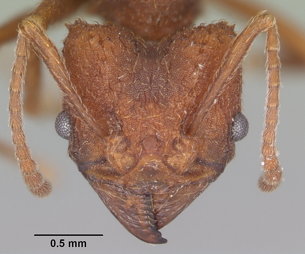 Head view of ant Acromyrmex versicolor specimen casent0104036.